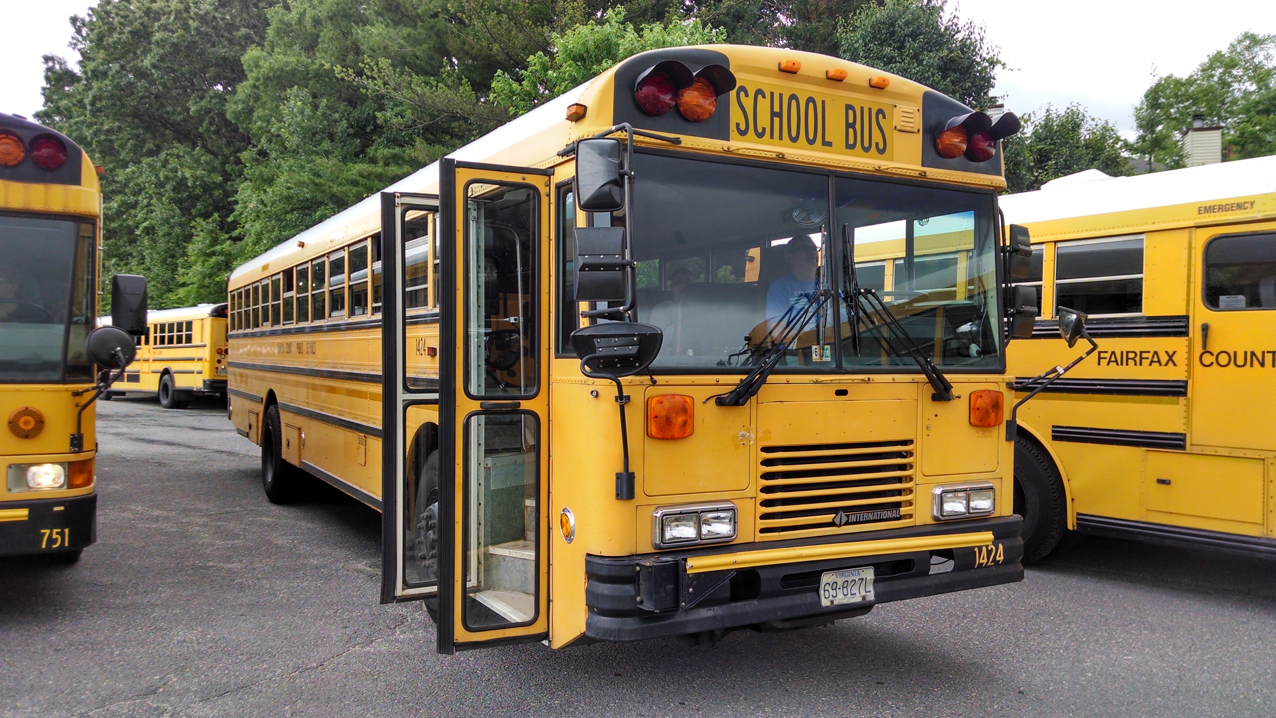 Bus #1424 (a 1996 AmTran IC) was used as a spare bus until the 2013-2014 school year for Fairfax County Public Schools.